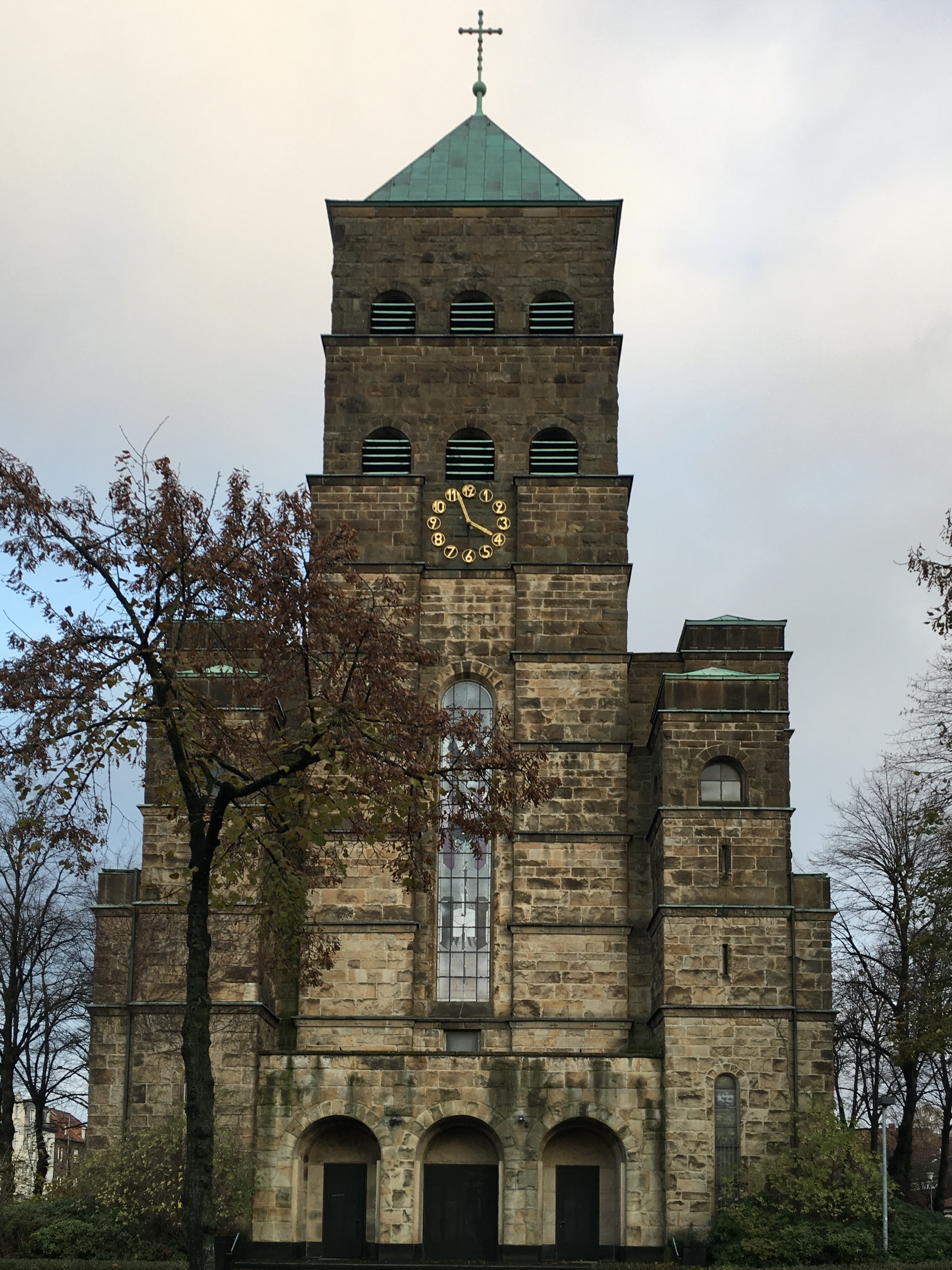 West facade of the Erpho Church in Münster